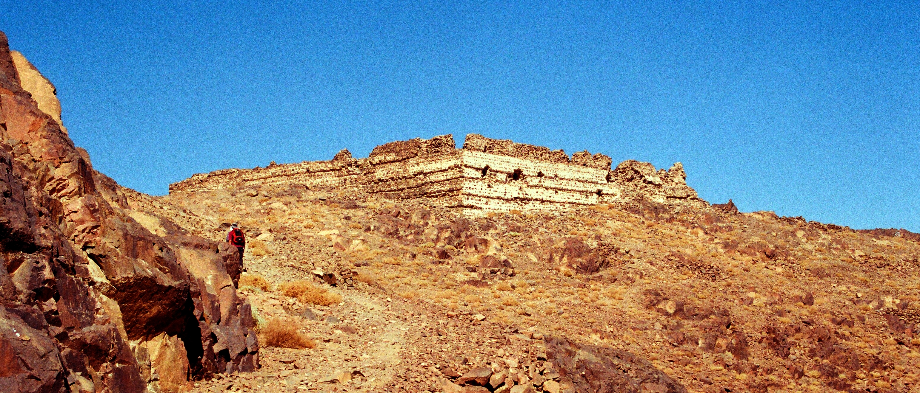 The incomplete palace of 19th-century Egyptian ruler, Abbas Basha. Shot with Nikon EOS-3 film camera, Kodak 200 color film. From Wikipedia: "One of the prime historical attractions in the area is the palace of Abbas I, the Walī and self-declared Khedive of Egypt and Sudan between 1849 and 1854. The palace was built on a mountain called at the time Jebel Tinya, but later named after him and today called Jebel Abbas Basha. The palace has never been finished as he died before it was completed, but the massive 2 metres (6.6 ft)-thick walls made of granite blocks and granite-sand bricks still stand firmly. The open quarry on the top of Jebel Somra, just opposite Jebel Abbas Basha, is still visible with many huge blocks lying around. Other blocks were cut from Wadi Zawatin, at the beginning of the ascent to the palace. The bricks were made on site while the mortar, made of lime and water, was burnt in kilns in the surrounding valleys. To be able to carry out the work, first he had to build a road accessible to camels and donkeys in order to transport the supplies. The road, starting at Abu Jeefa and going through Wadi Tubug and Wadi Zawatin, is still in use today."